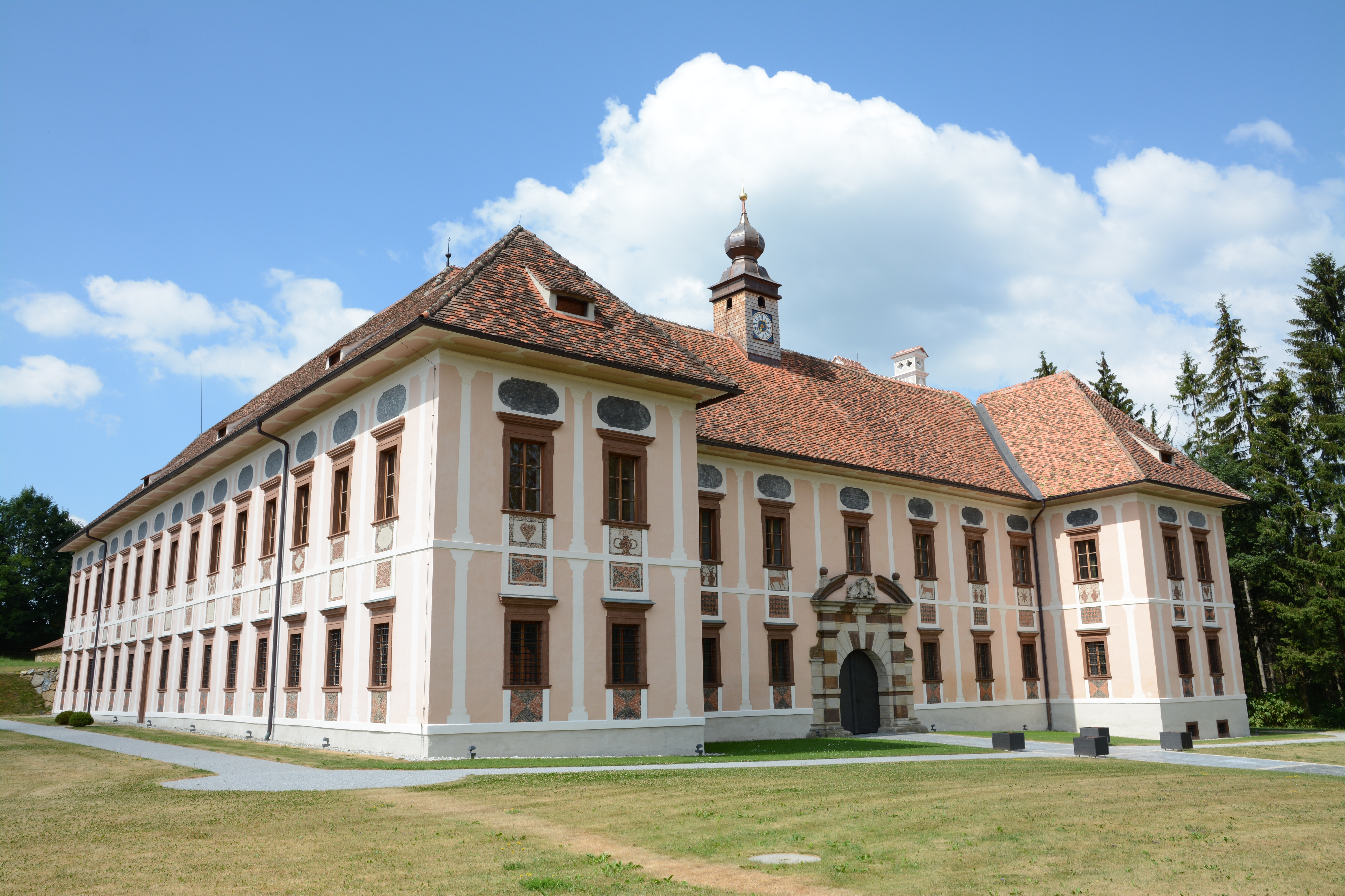 Castle Külml